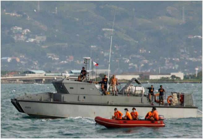 A Multi-Purpose Attack Craft of the Philippine Navy